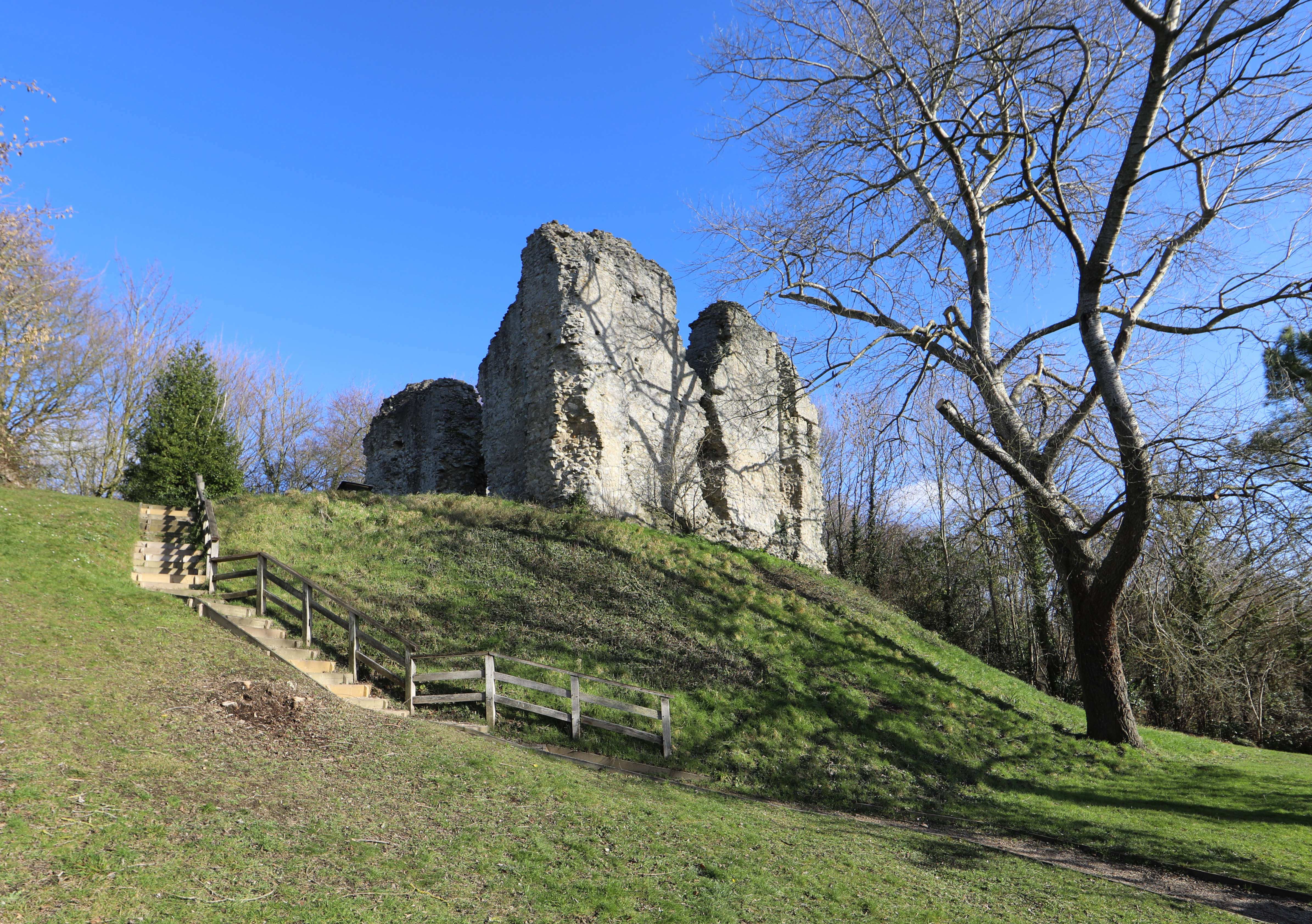 Ruins Of Sutton Castle Wikidata has entry Q26482198 with data related to this item.